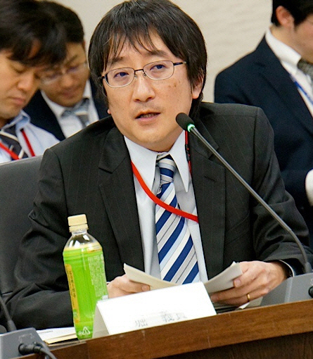 The boss of Horipro - Hori Yoshitaka-san. He talks about the globalisation efforts they have been putting into participating in events such as Anime Festival Asia. View more at